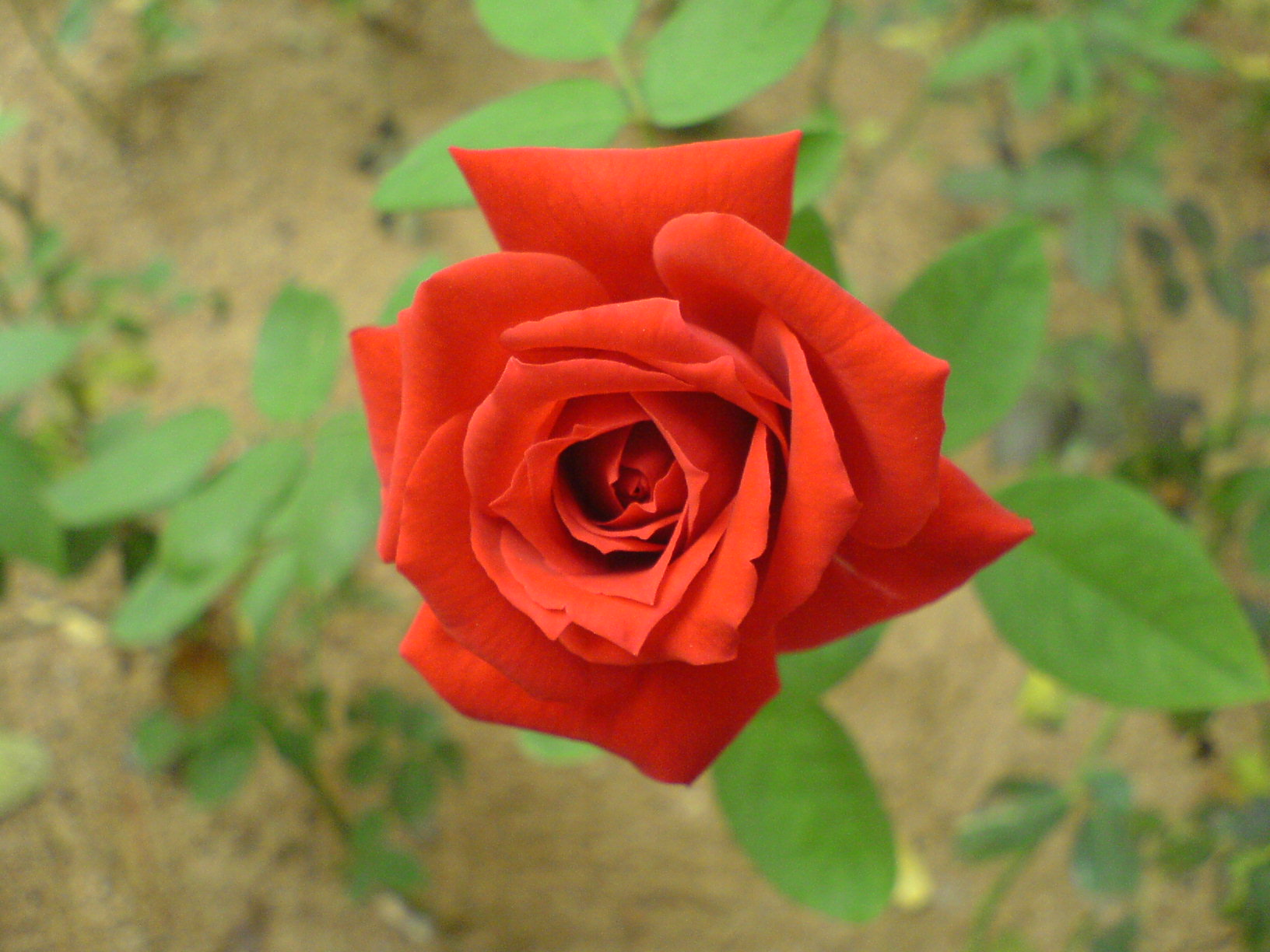 Photograph of a rose.